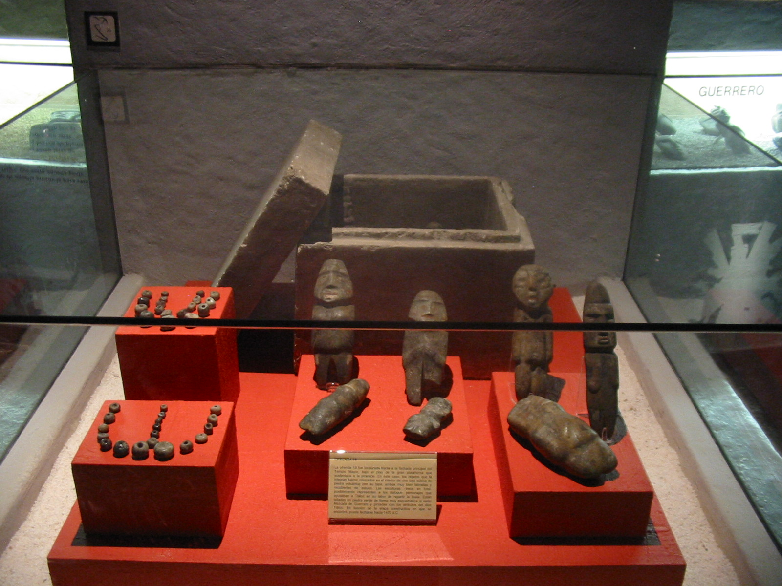 Stone box and contents found at the Templo Mayor in Mexico City. This was only one of the many offerings found here.